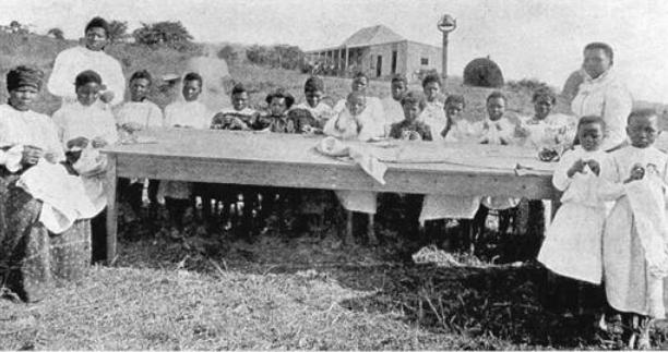 Mrs Nokutela Dube and her early years needlework class Ohlange High School from First President: A Life of John Dube, Founding President of the ANC By Heather Hughes